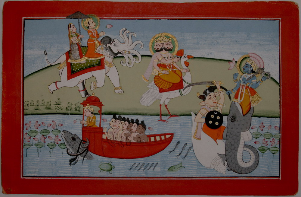 "Scene from a Matsya Purana: Manu with Seven Rishis in a boat tied by Vasuki to Vishnu; Indra and Brahma show deference to Vishnu as Matsya avatara. Mewar, circa 1840."